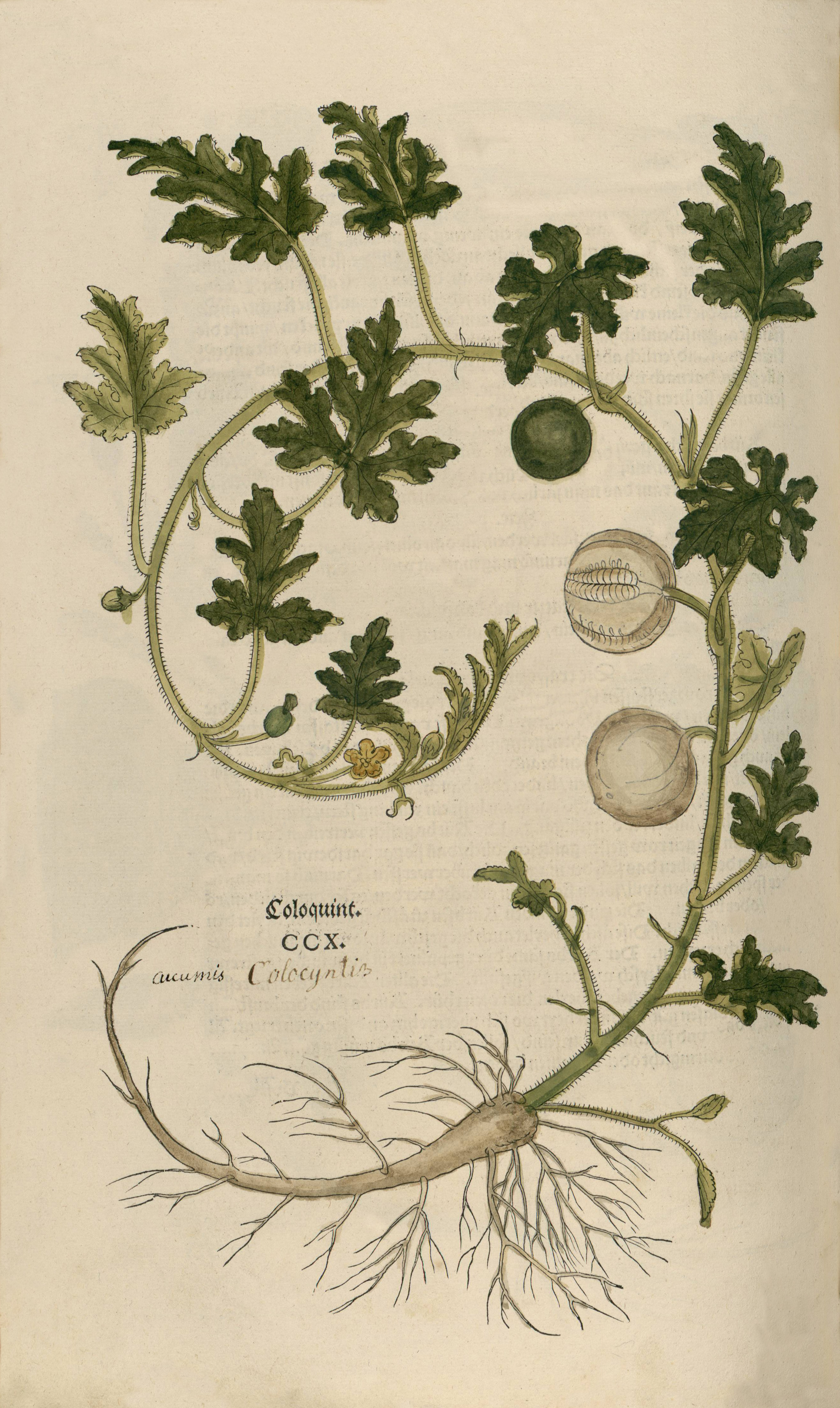 Coloquint - Citrullus colocynthis, image 377